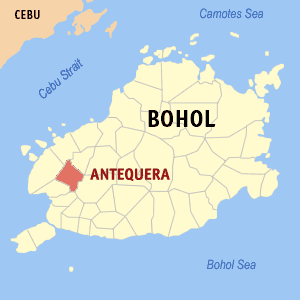 Map of Bohol showing the location of Antequera